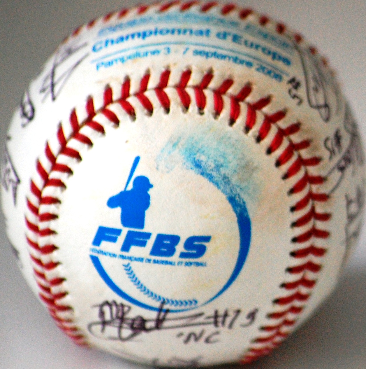 Baseball balls signed by the French baseball team.